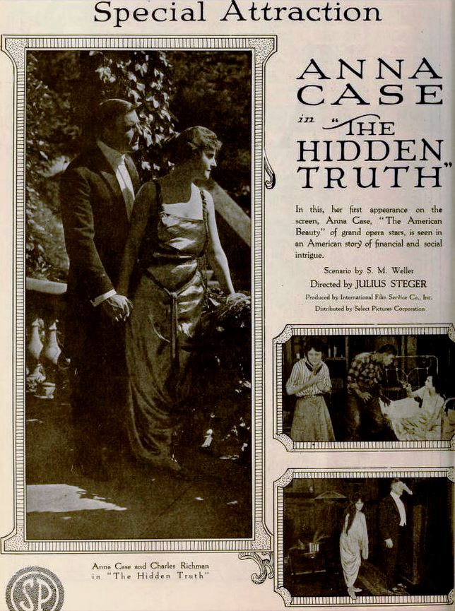 Ad for the American film The Hidden Truth (1919) with Anna Case and Charles Richman, on page 304 of the January 18, 1919 Moving Picture World.